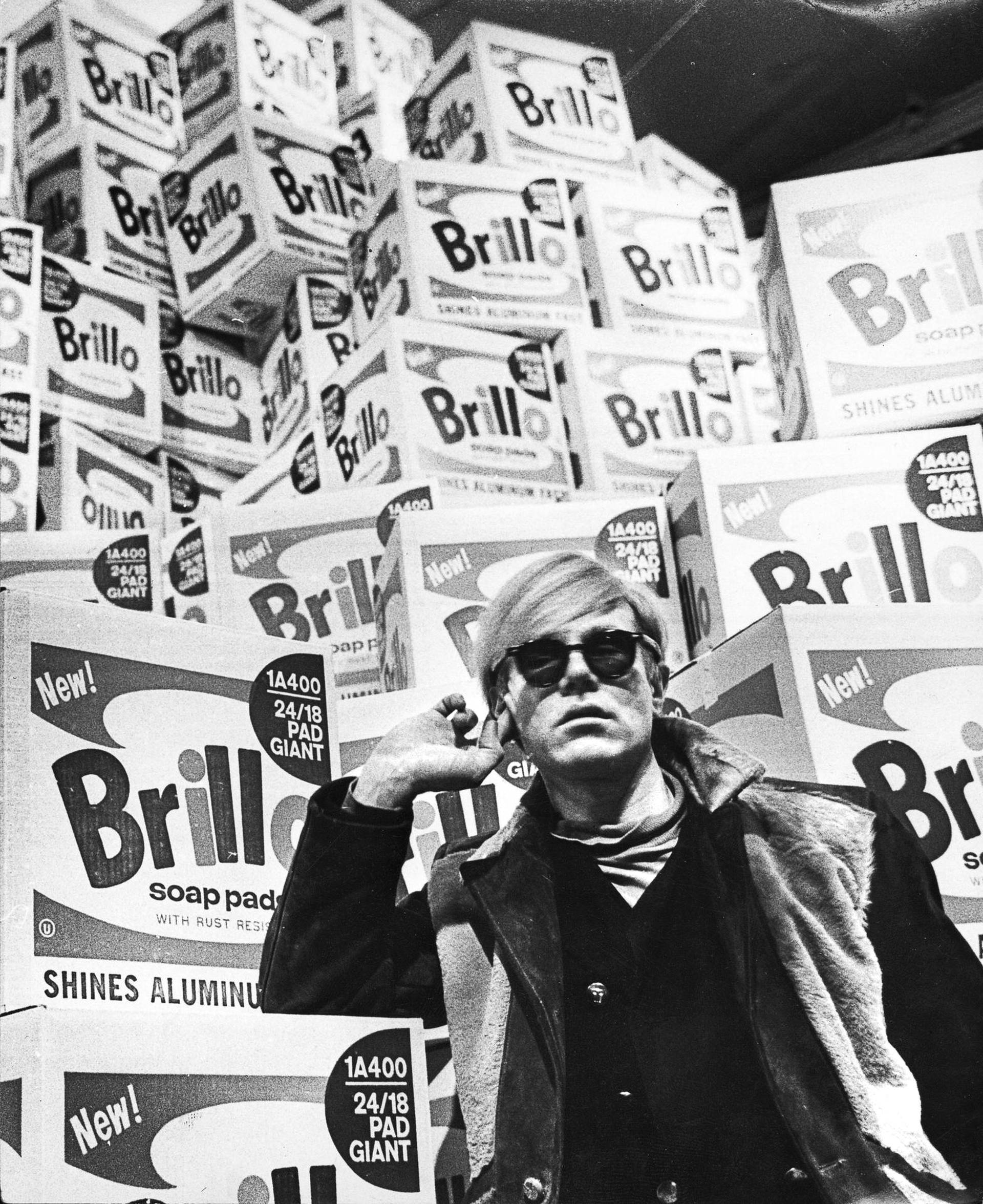 Photograph of the American artist Andy Warhol in Moderna Museet, Stockholm, before the opening of his retrospective exhibition. Brillo boxes in the background.